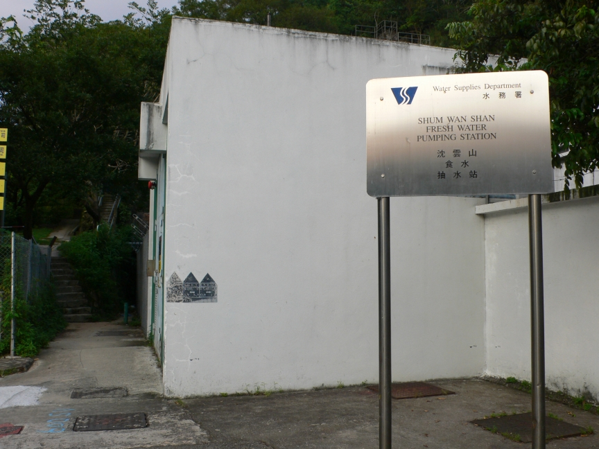 Shun Wun Shan Fresh Water Pumping Station